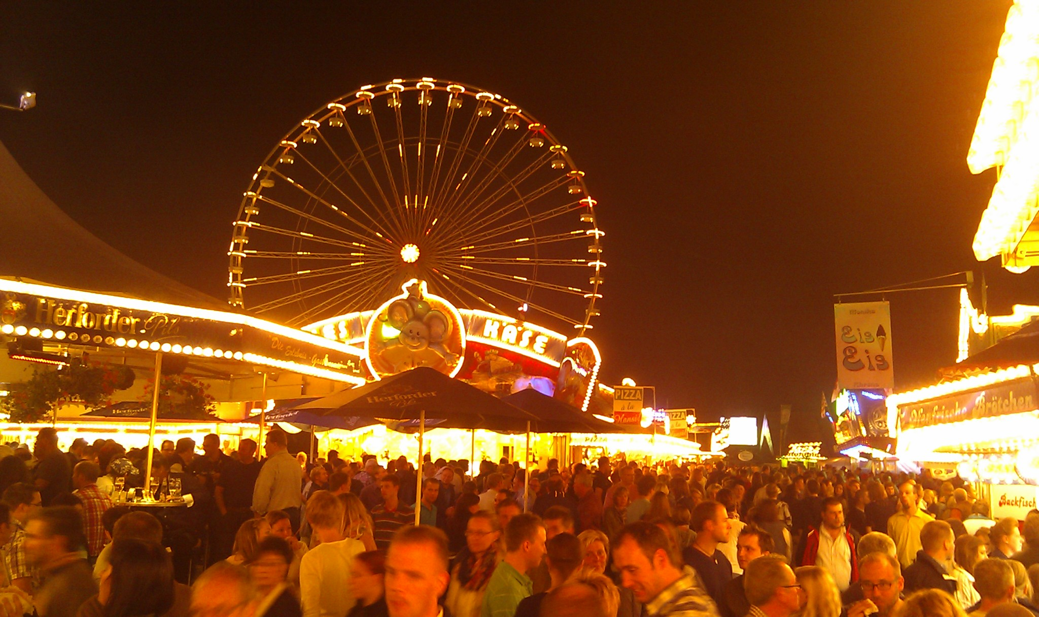 Blasheim Fair in Lübbecke, District of Minden-Lübbecke, North Rhine-Westphalia, Germany.